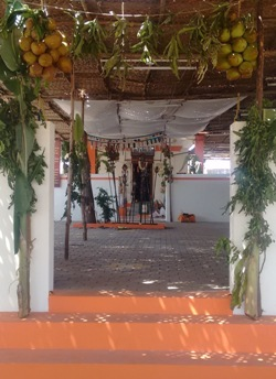 Kurukkatti masi periyasamy temple குருக்கத்தி மாசி பெரியசாமி கோயில்